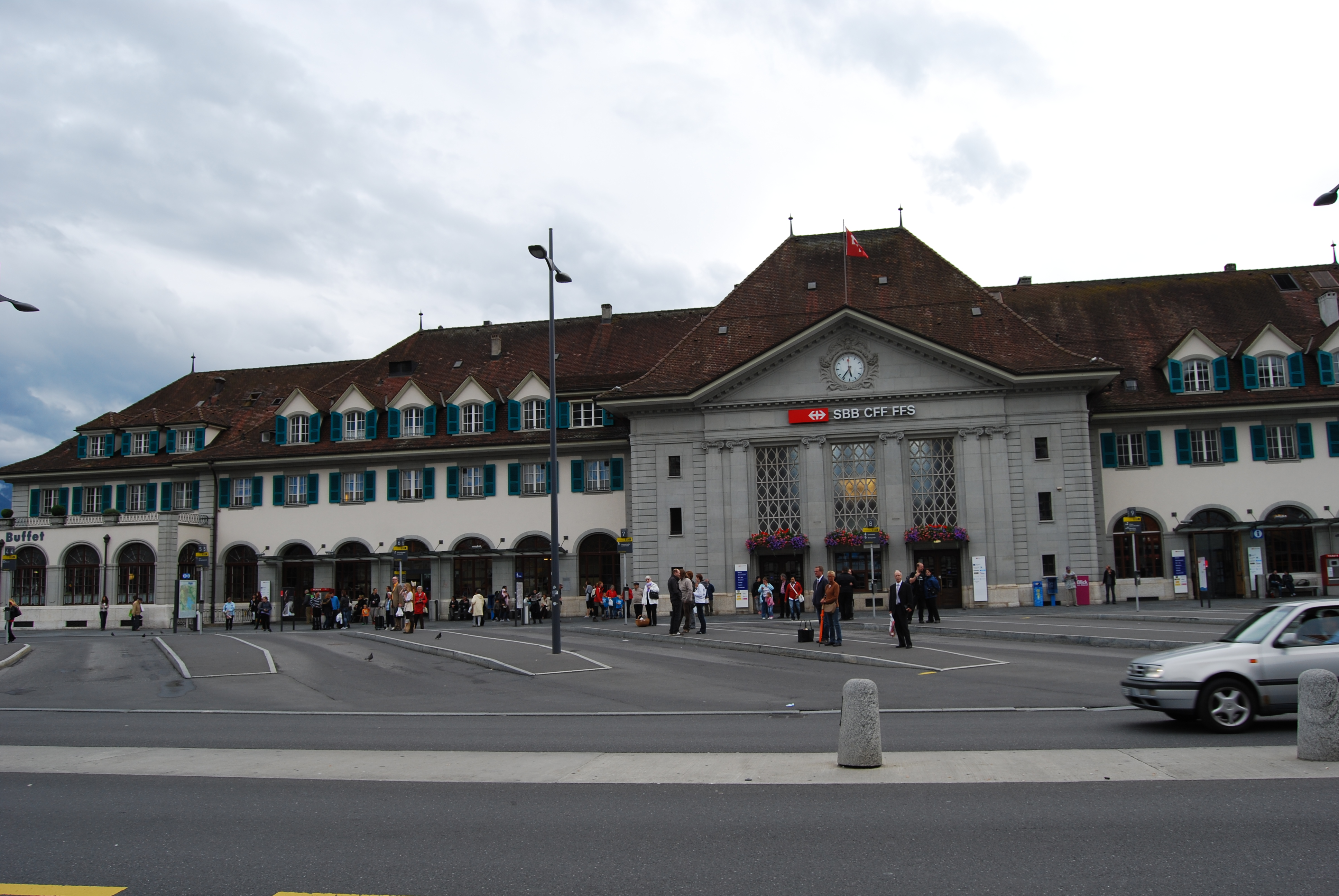 Train station of Thun, canton of Bern, Switzerland